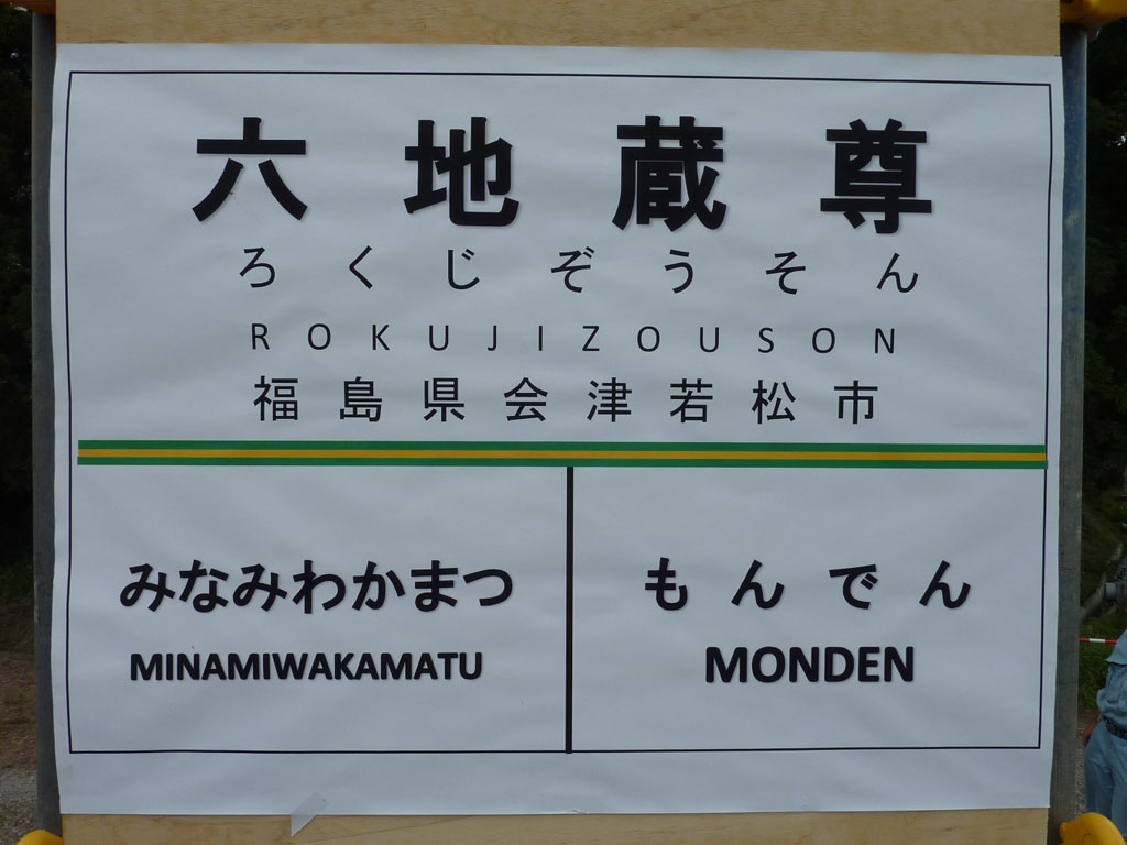 Rokujizouson Station(SIGN) on Aizu Railway. (Monden-machi oaza Ichinoseki,Aizuwakamatsu-shi,Fukushima-ken,JAPAN)